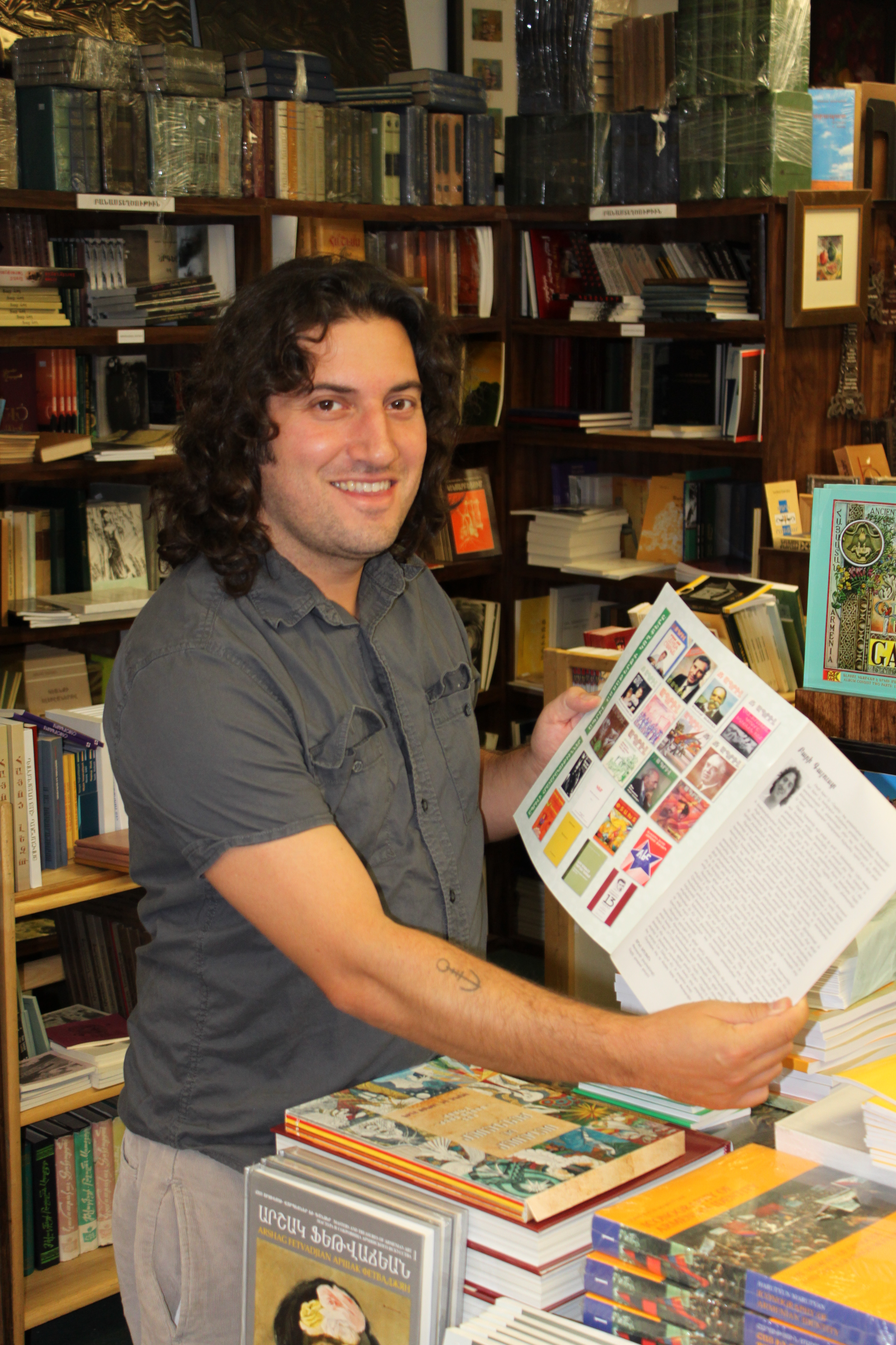 Abril Bookstore, Glendale, CA, USA. Arno Yeretzian, owner, showing festival booklet dedicated to the 30th anniversary of the bookstore (celebrated in 2008).